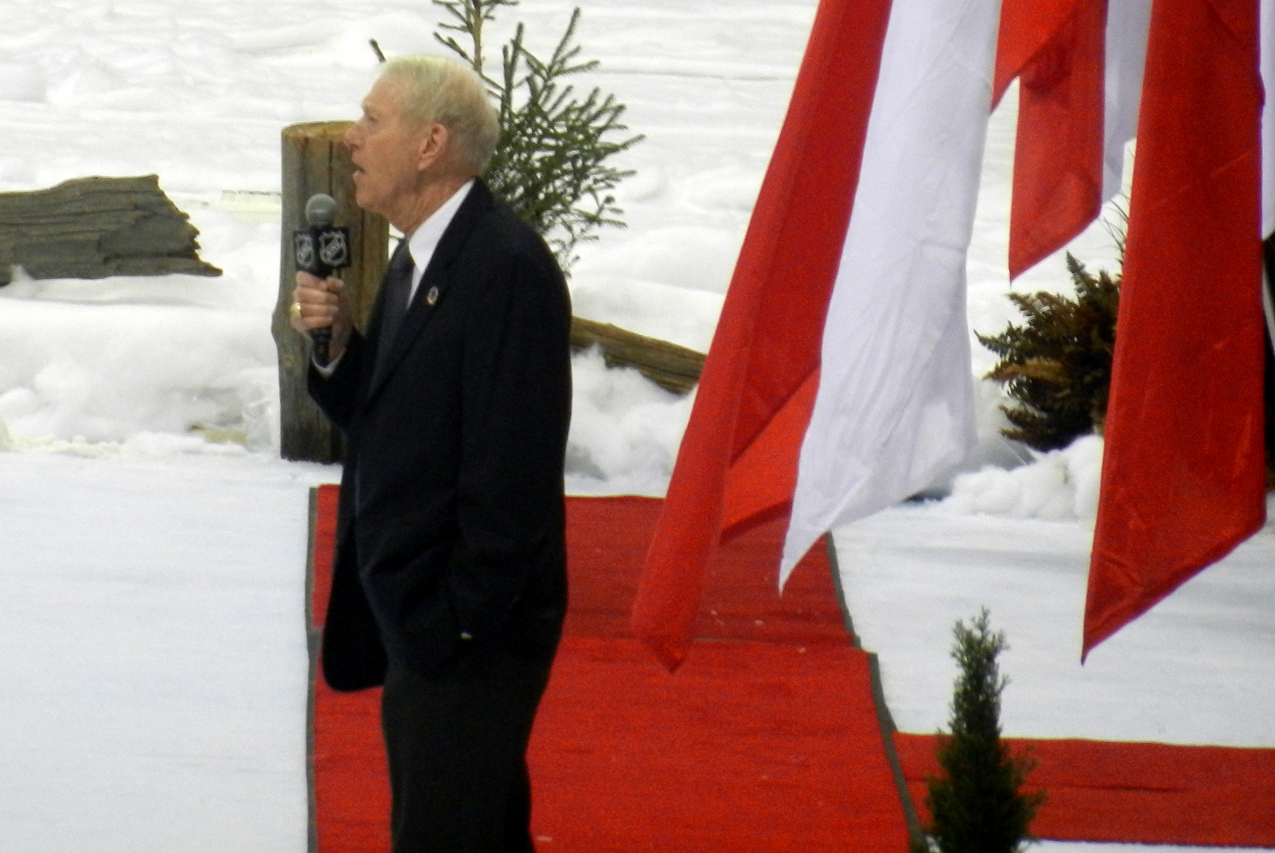 Jim Robson at the 2014 Heritage Classic